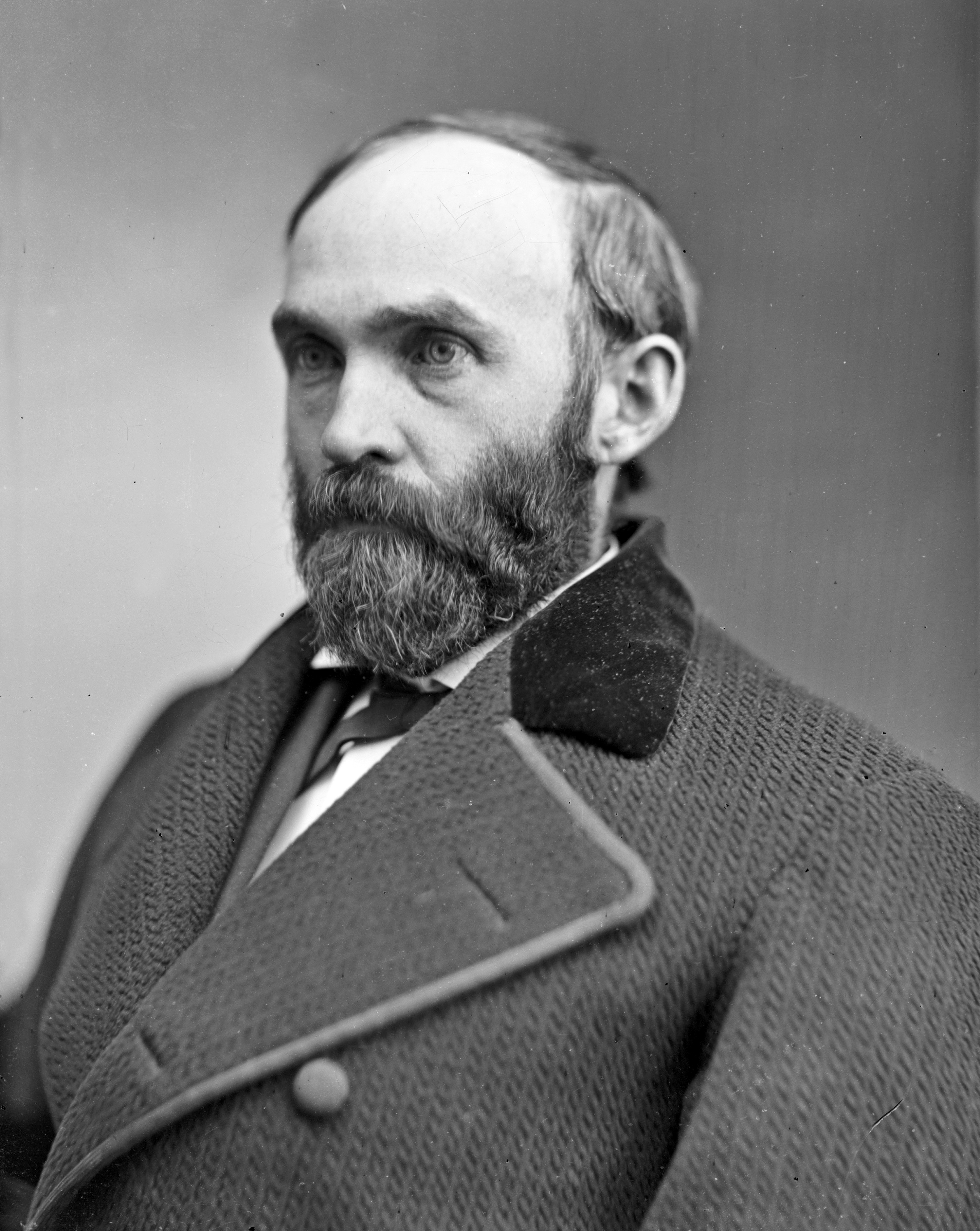 Kentucky Congressman Albert S. Willis